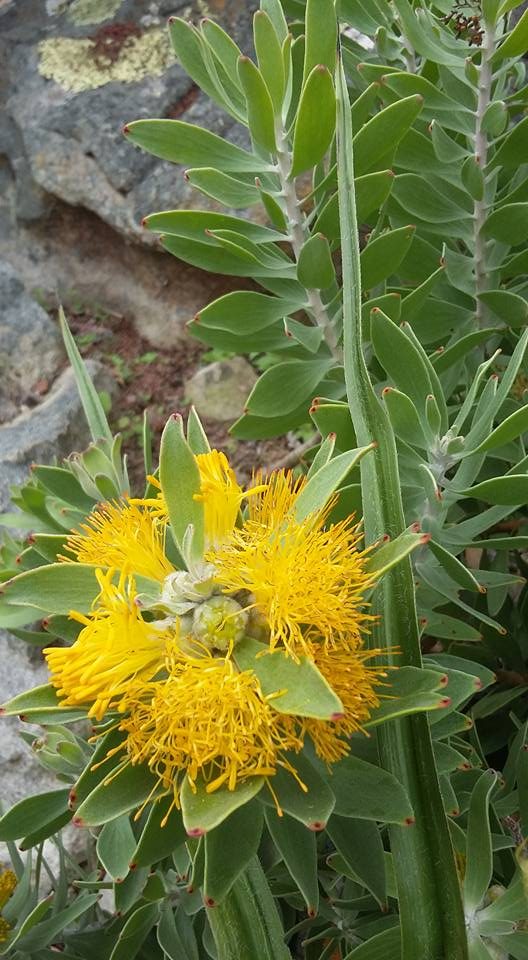 Mimetes chrysanthus Rourke - Kirstenbosch Botanical Gardens, Cape Town, South Africa